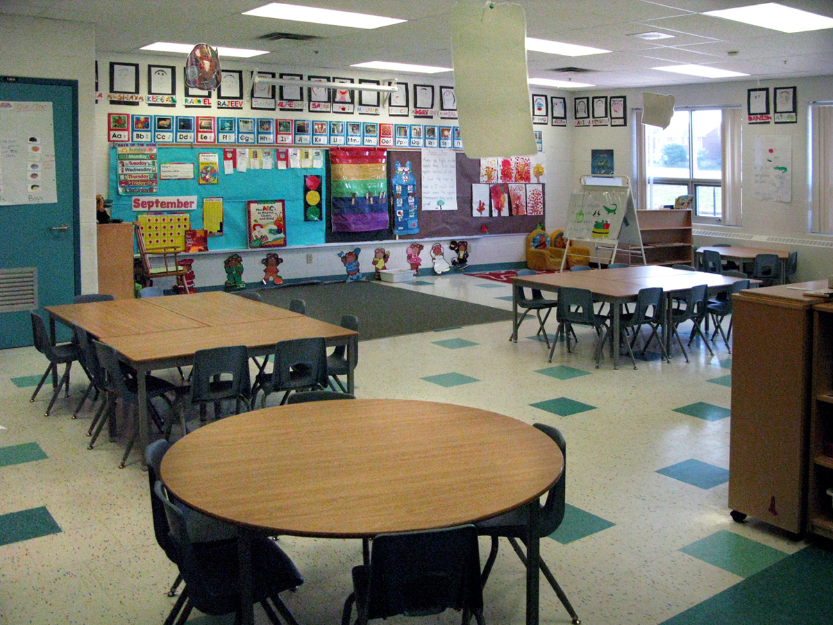 This is one of the kindergarten rooms on the first floor.